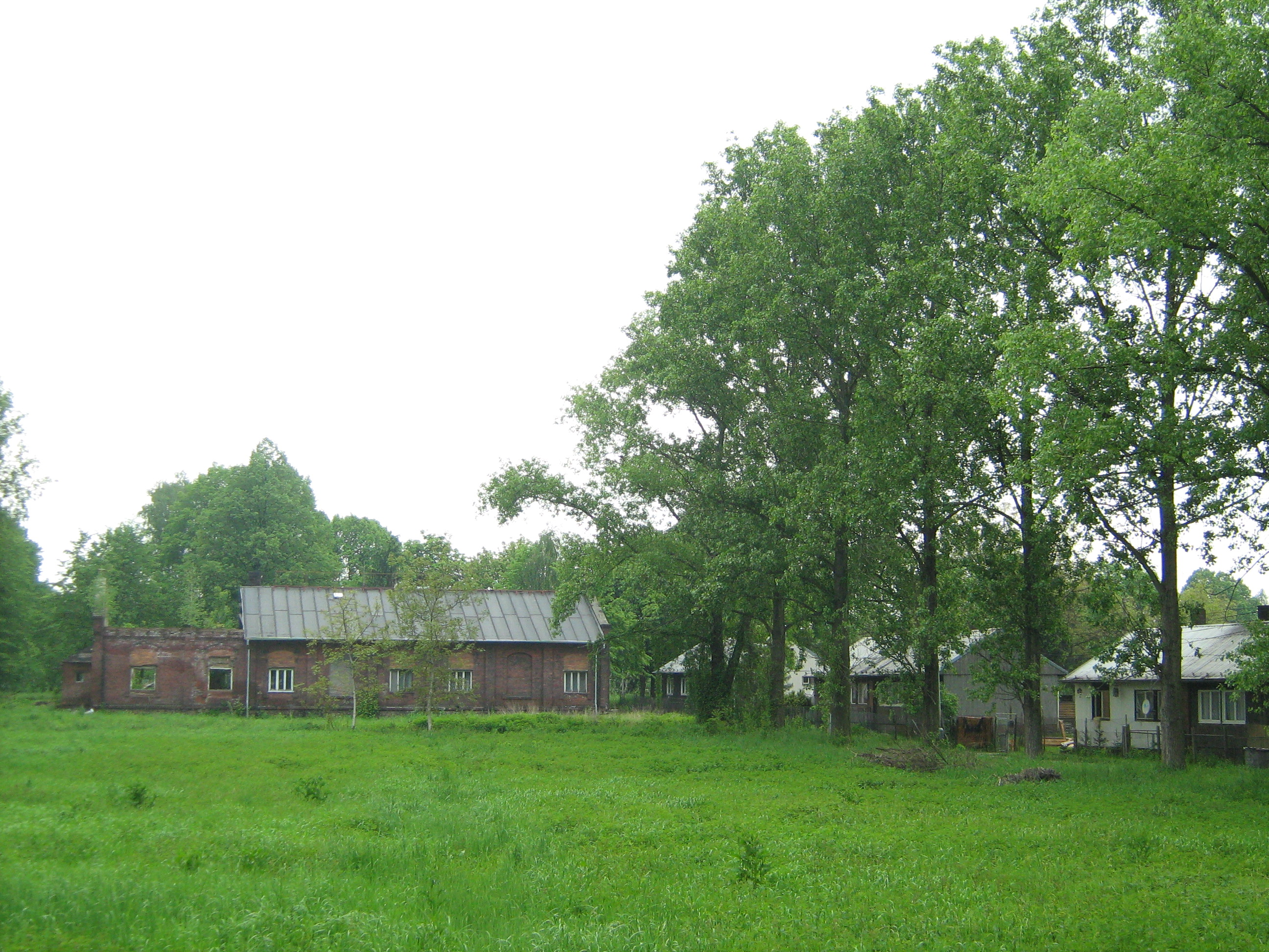 Settlement Bedřiška in Ostrava